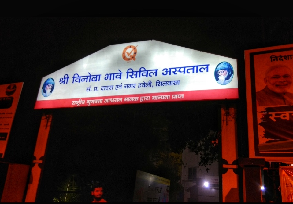 Main gate at night